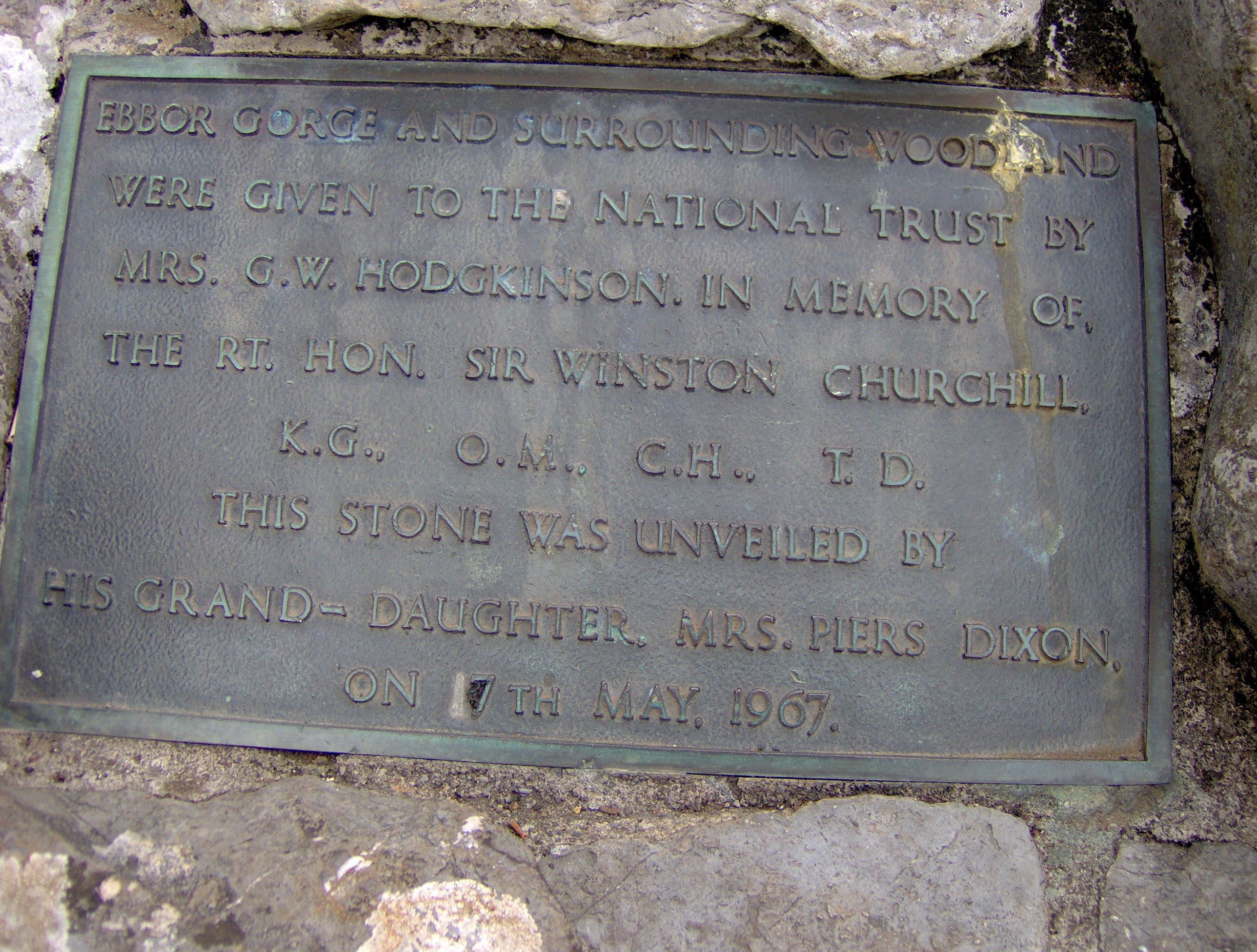 Plaque at Ebbor Gorge. Taken by Rod Ward 15th Aug 2006